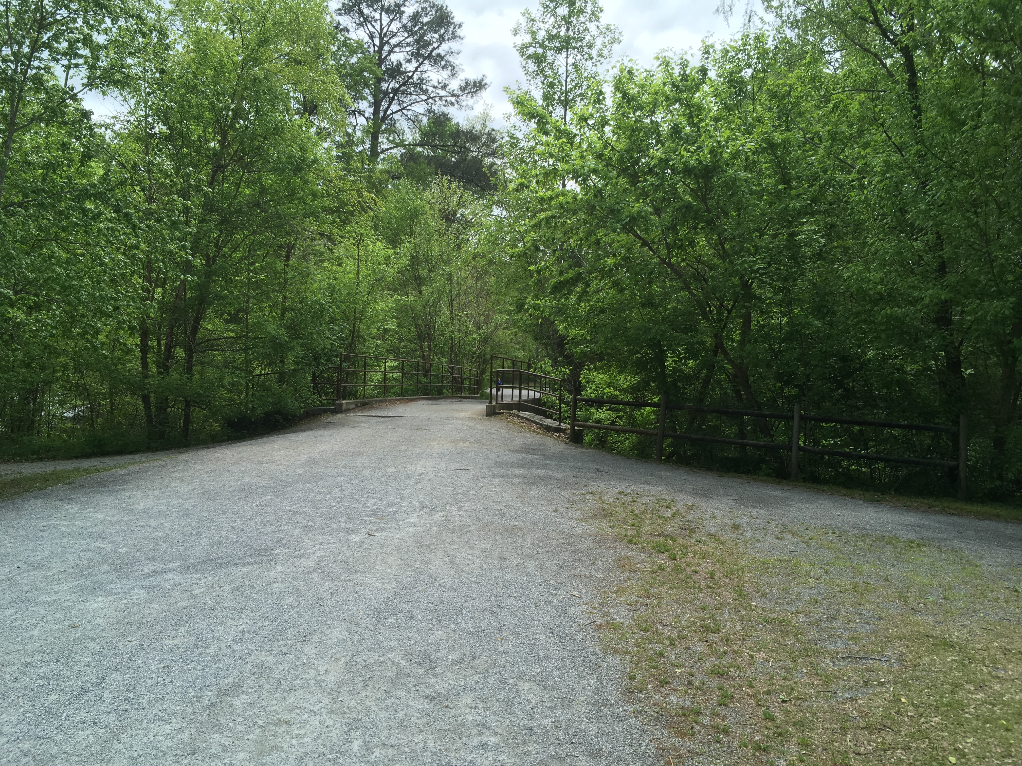 The Chattahoochee River National Recreational Area in Sandy Springs